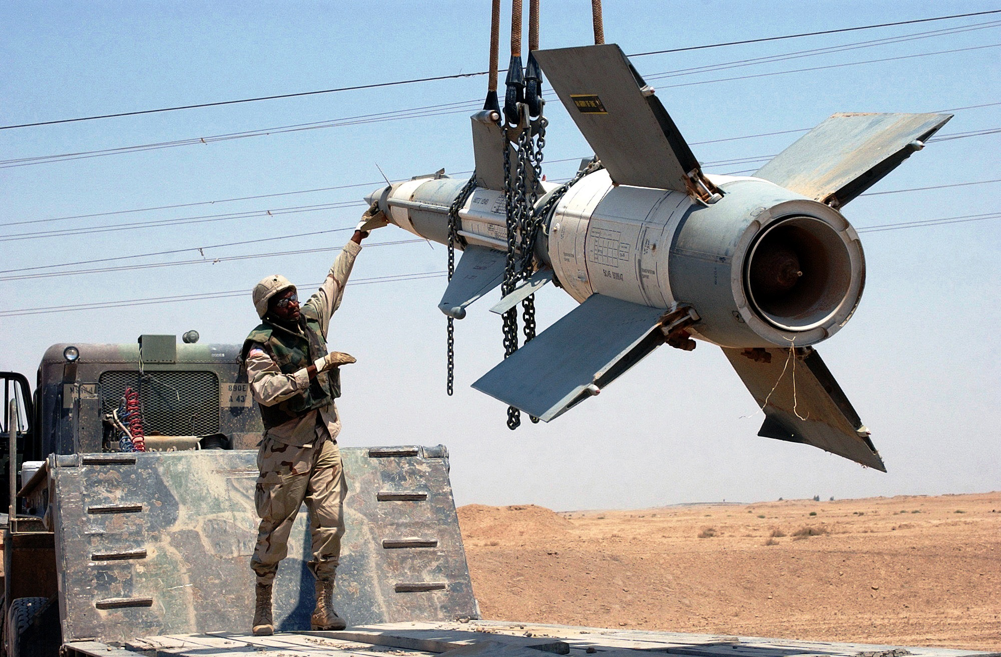 A U.S. Army (USA) Specialist of the 3rd Infantry Division, guides an Iraqi SA-3 Goa missile slated for destruction, onto a flatbed truck, after the missile was discovered outside of Fallujah, Iraq, during Operation IRAQI FREEDOM.